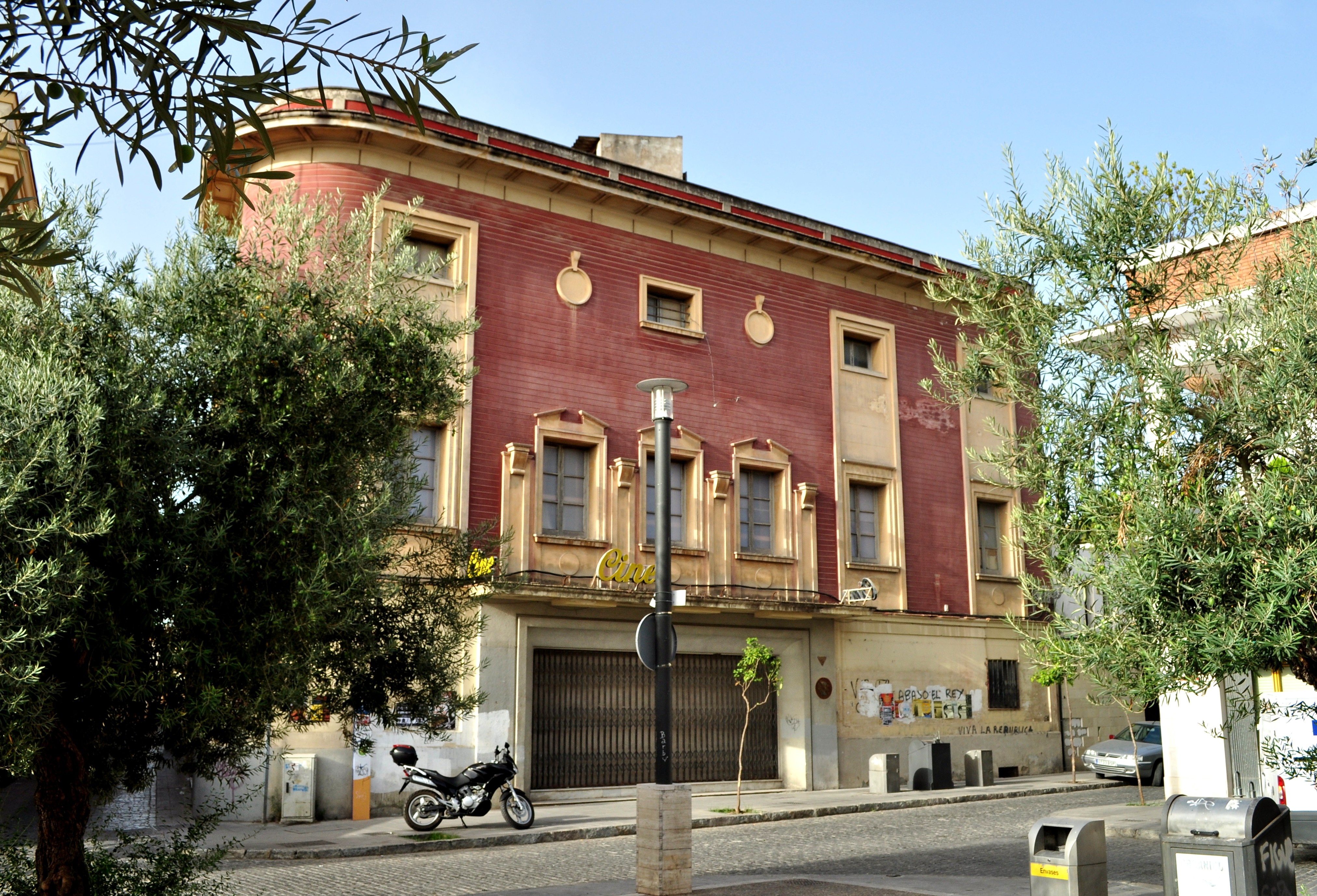 Old Jerezano Cinema, Jerez